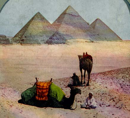 Tagalog: Photograph of Great Pyramids from a 19th century Stereopticon card, from collection of Infrogmation